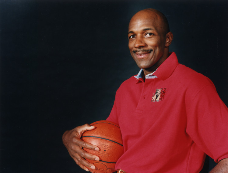 Portrait of Clyde Drexler with a basketball